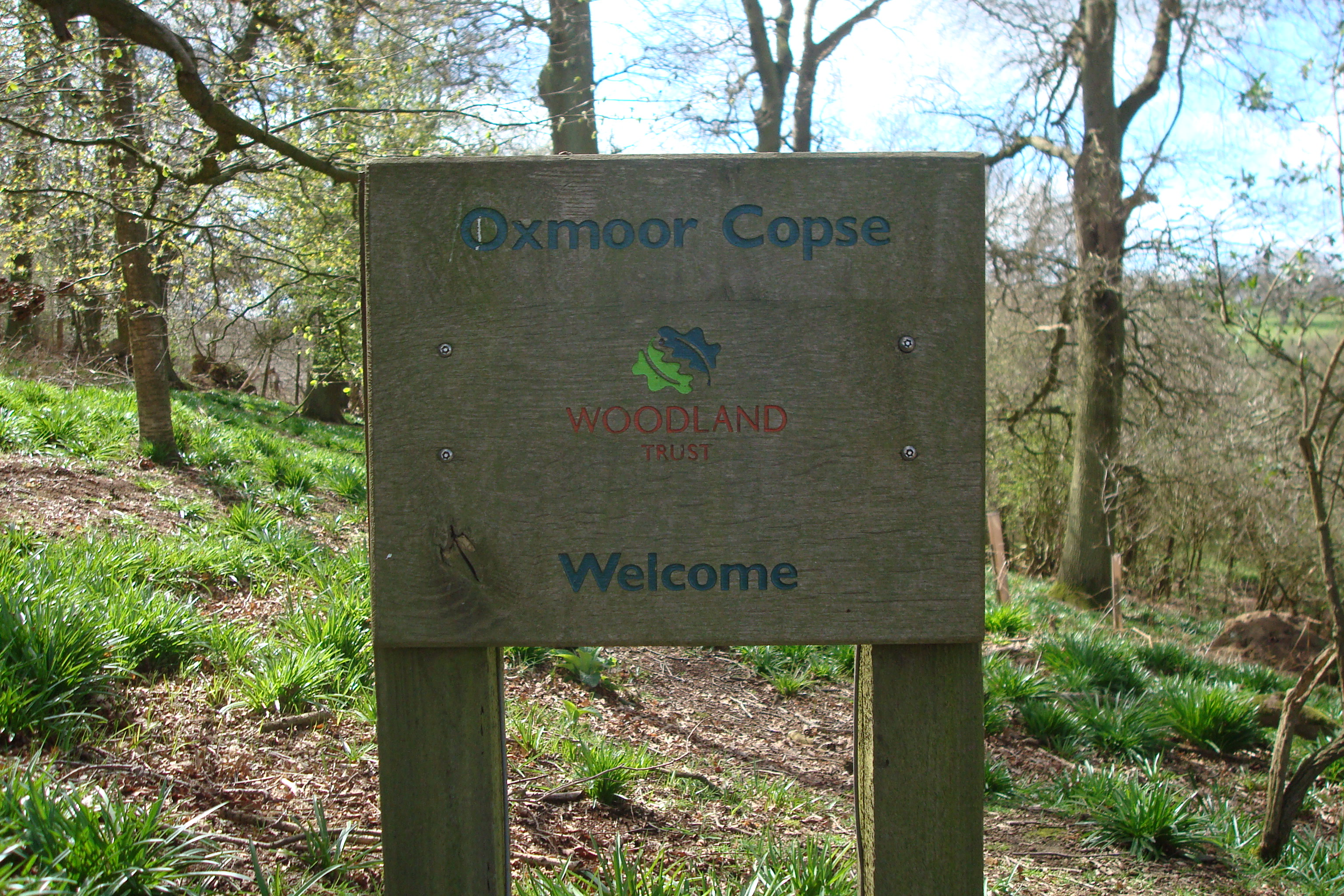 Welcome sign at Oxmore Copse.